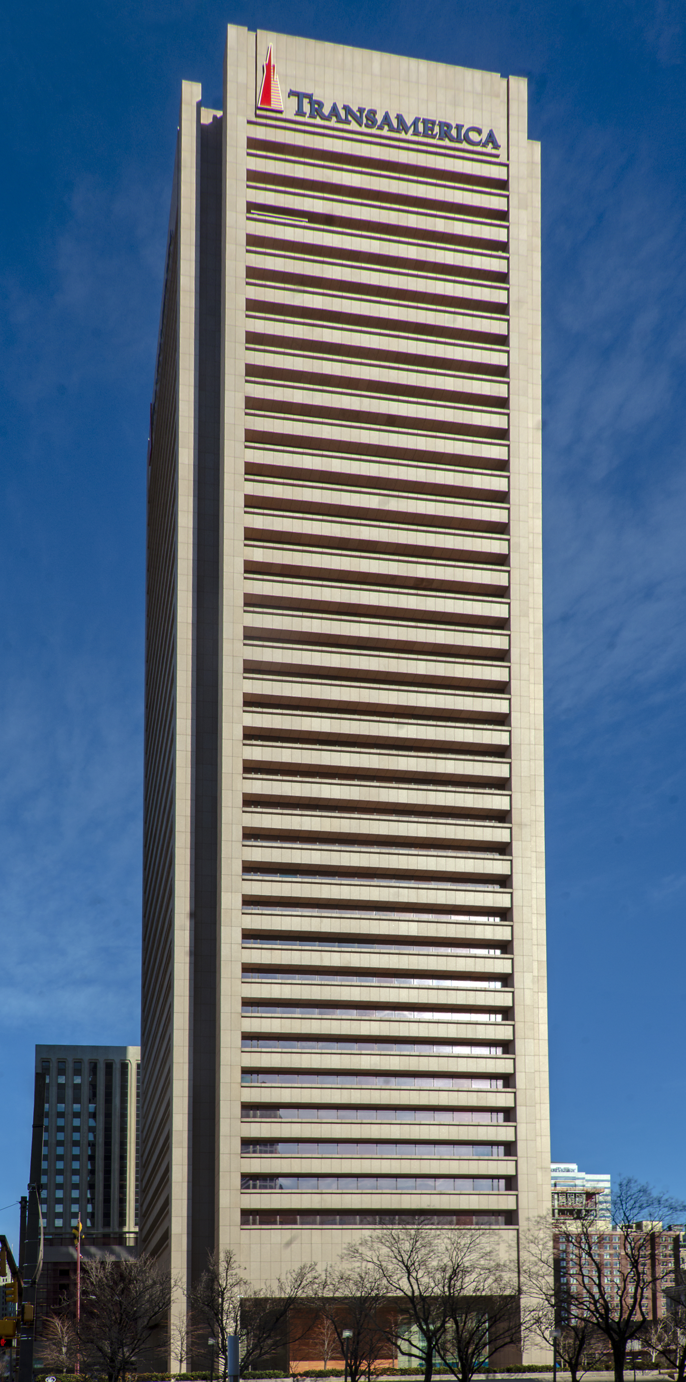 Transamerica Tower, Inner Harbor, Baltimore, MD, as it appears with the company's name on the building.